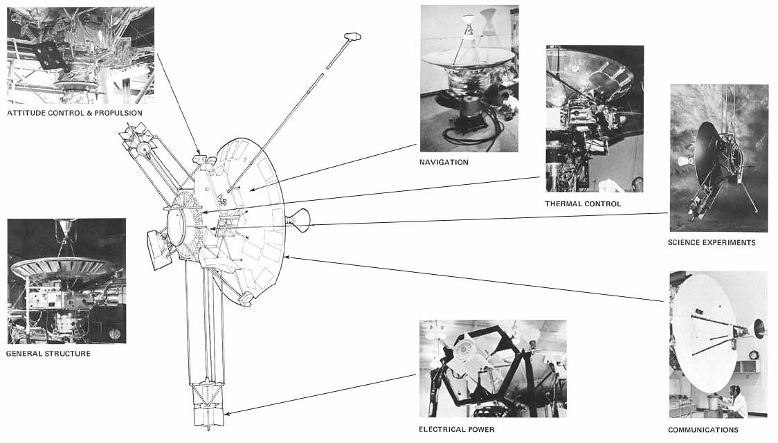 Subsystems of the Pioneer 10 spacecraft.